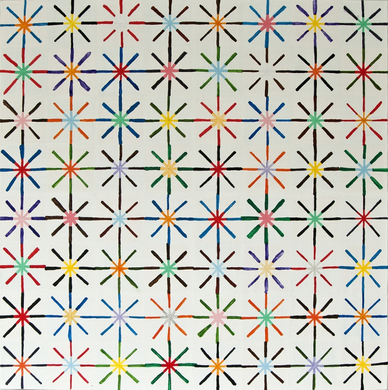 Examples of colored Ehrenstein figures